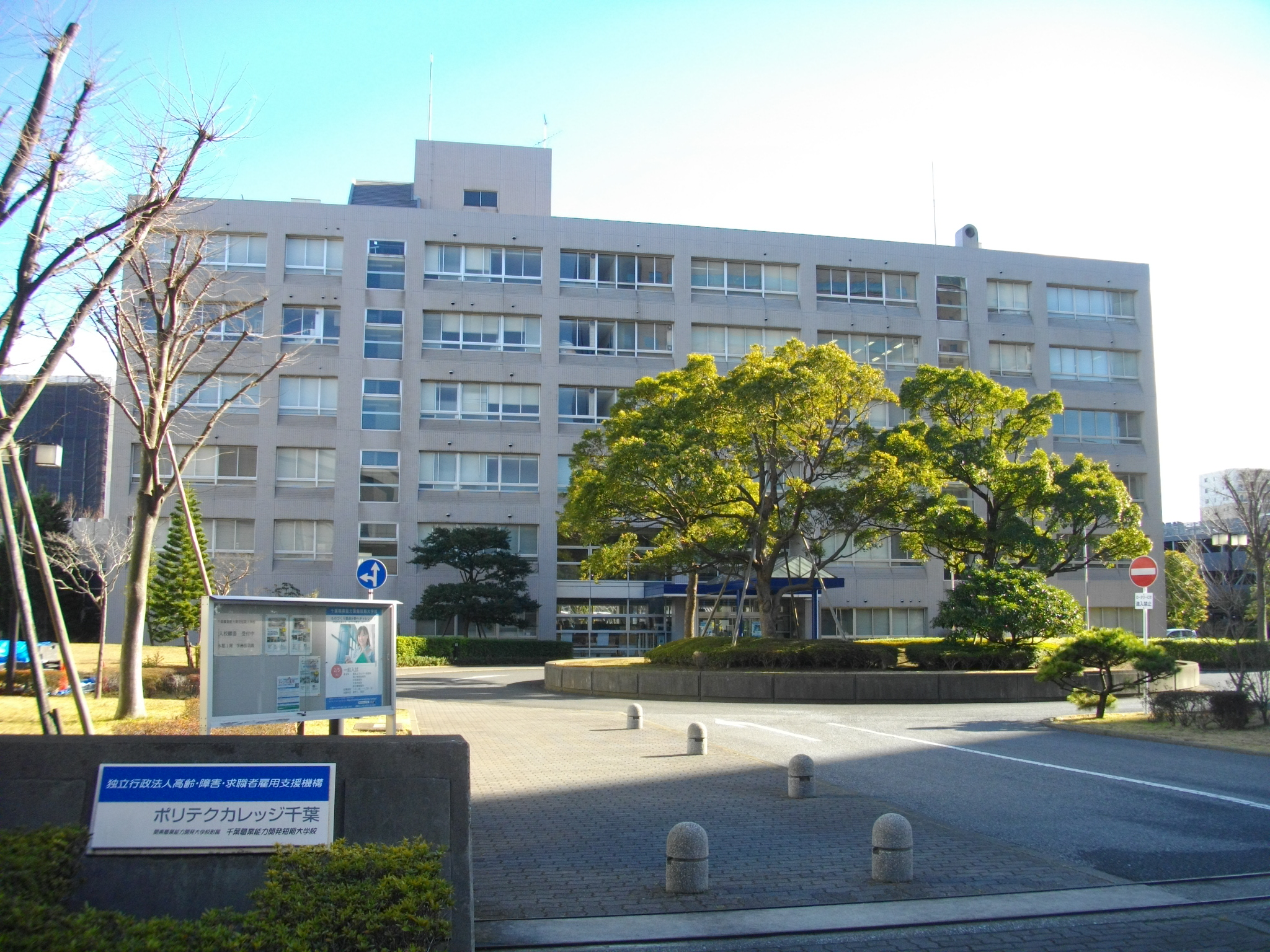 Chiba Polytechnic College Chiba Campus